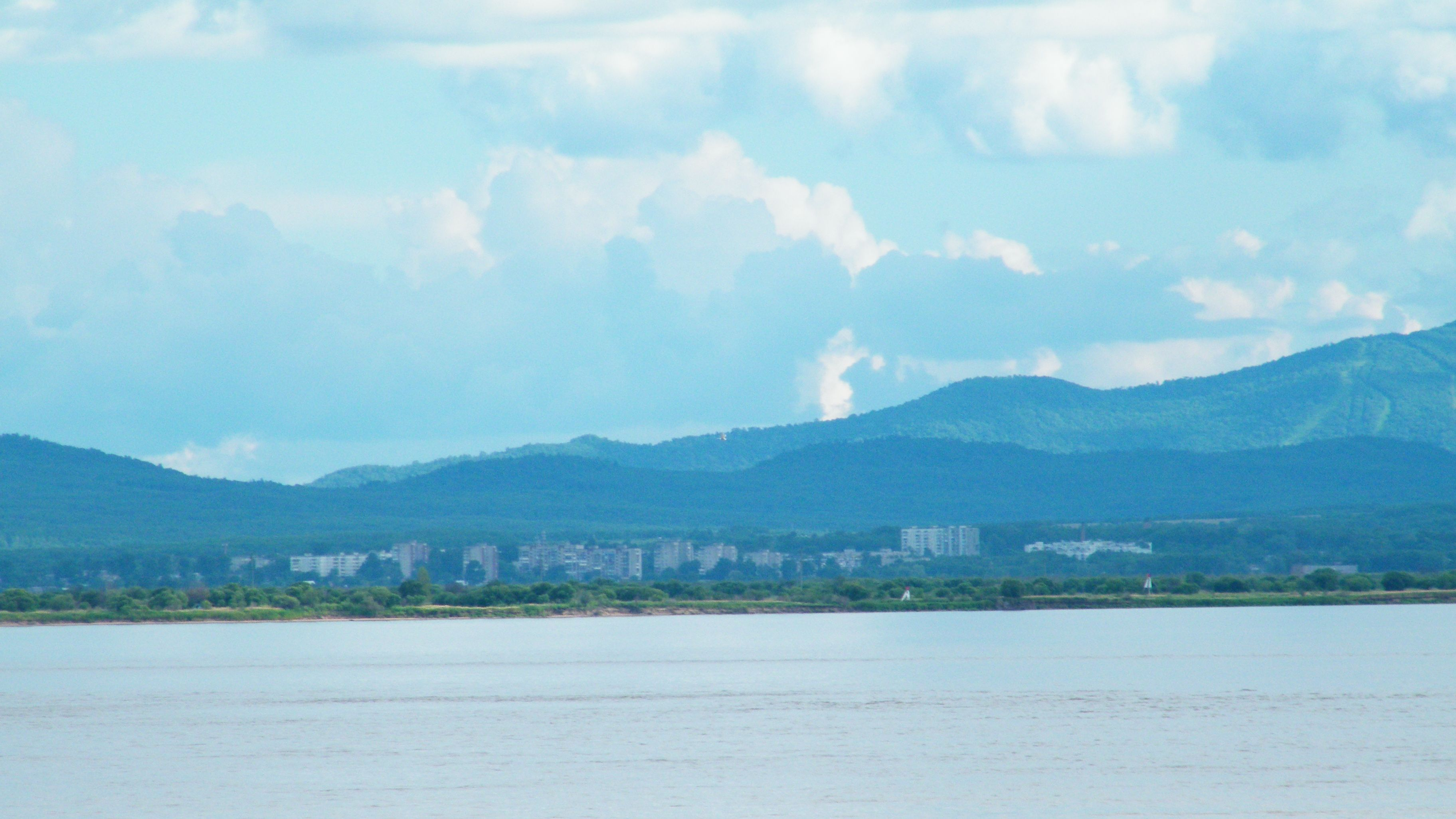 Amur River